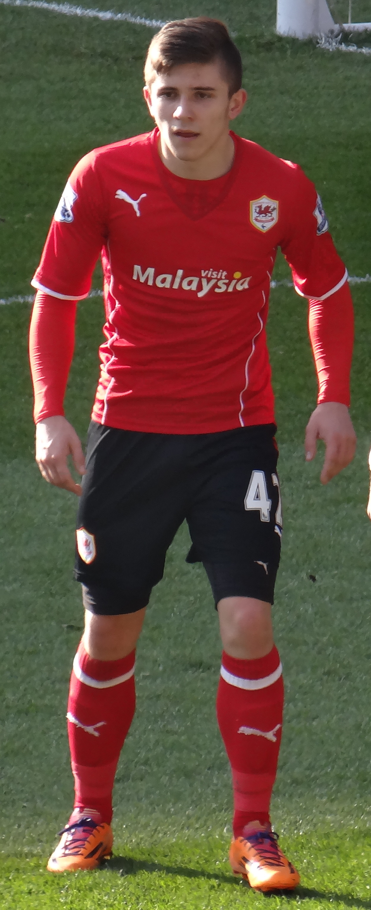 08/03/14 Cardiff City v Fulham, Premier League, Cardiff City Stadium, Cardiff, Wales